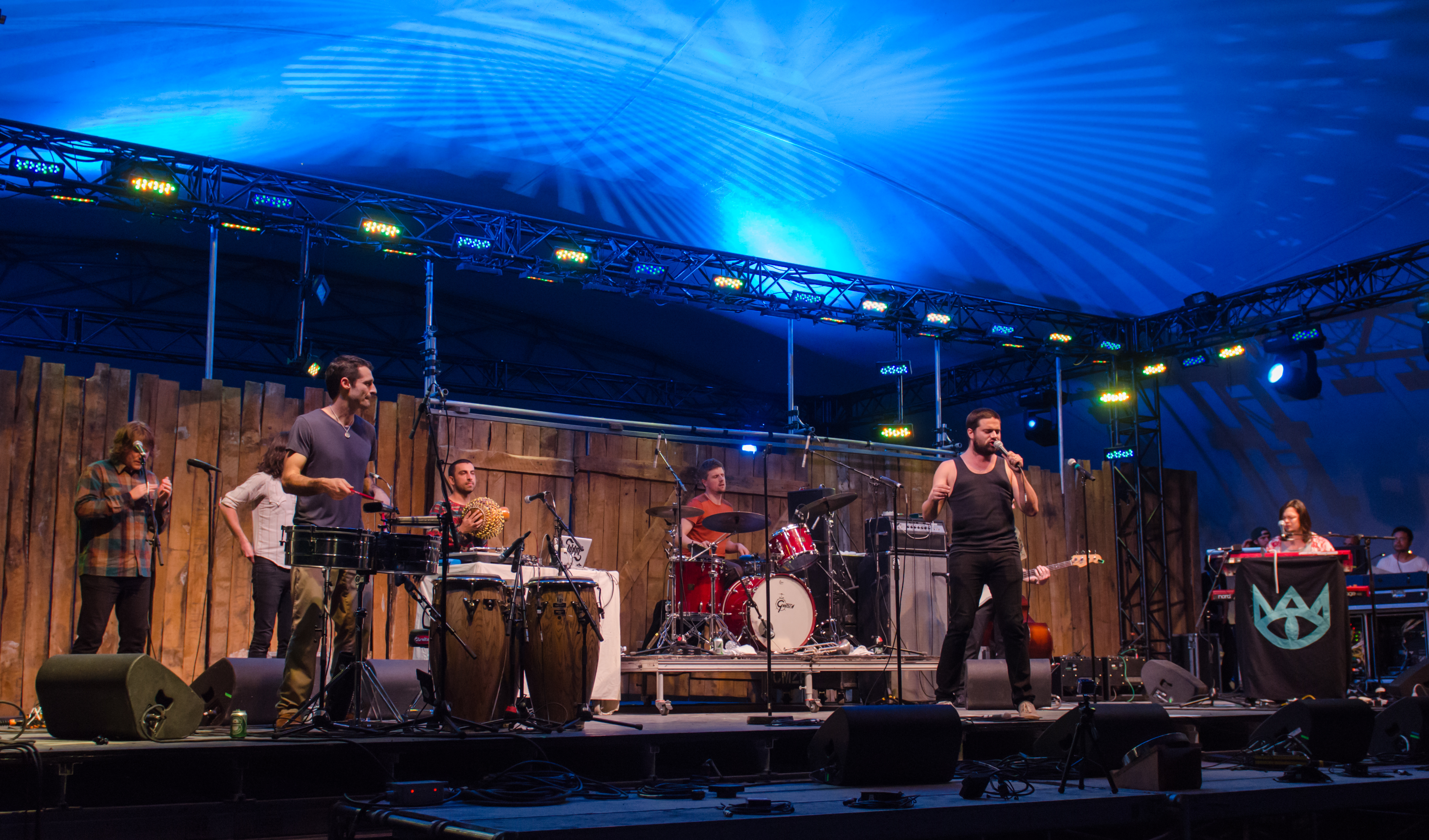 The Cat Empire playing at the Winnipeg Folk Fstival.